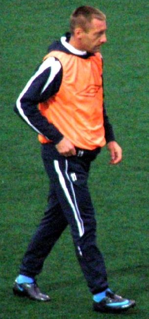 Andrei Tikhonov warming up for FC Krylya Sovetov Samara